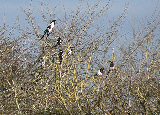 Magpie gathering But a few of 17 in the flock gathering in the hedgerow on this occasion.